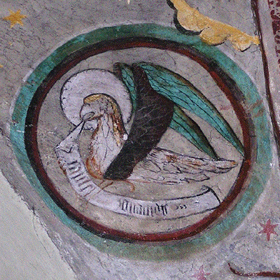 John the Evangelist in Överselö kyrka